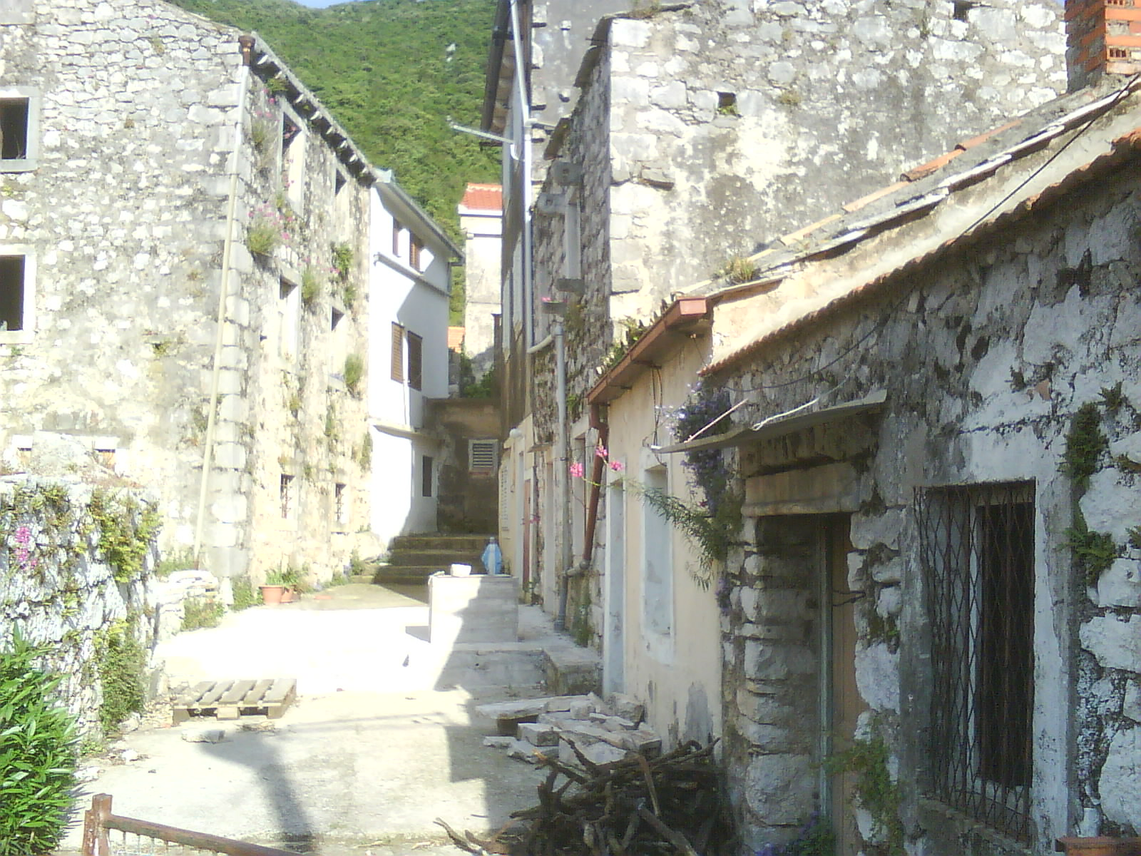 Stone buildings in Peliška Duba, a village in Trpanj municipality - OpenStreetMap (Info)